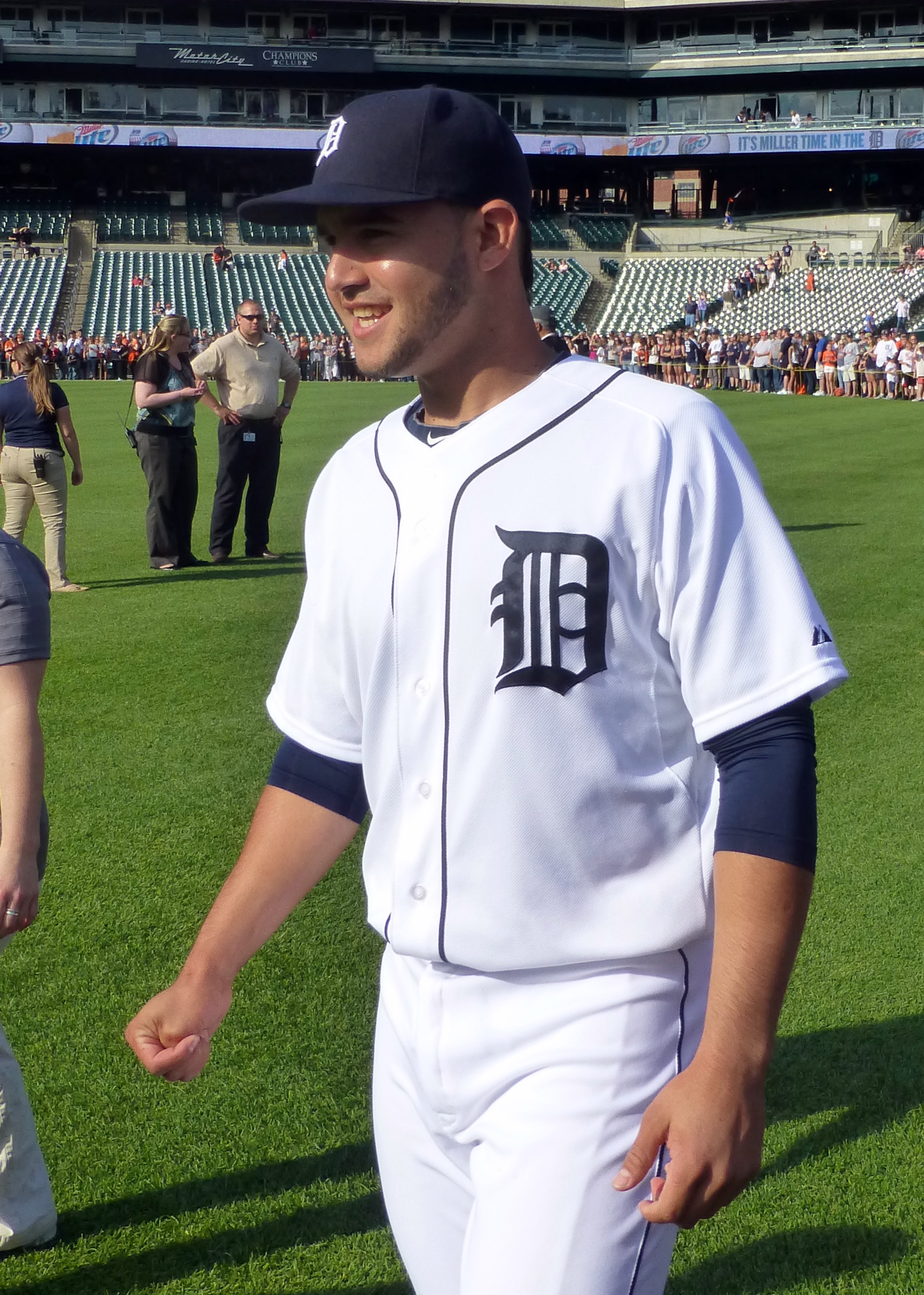 Eugenio Suárez in 2014